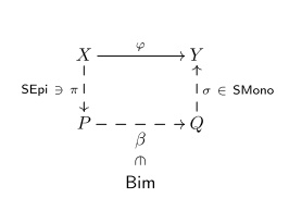 Definition of a nodal decomposition.